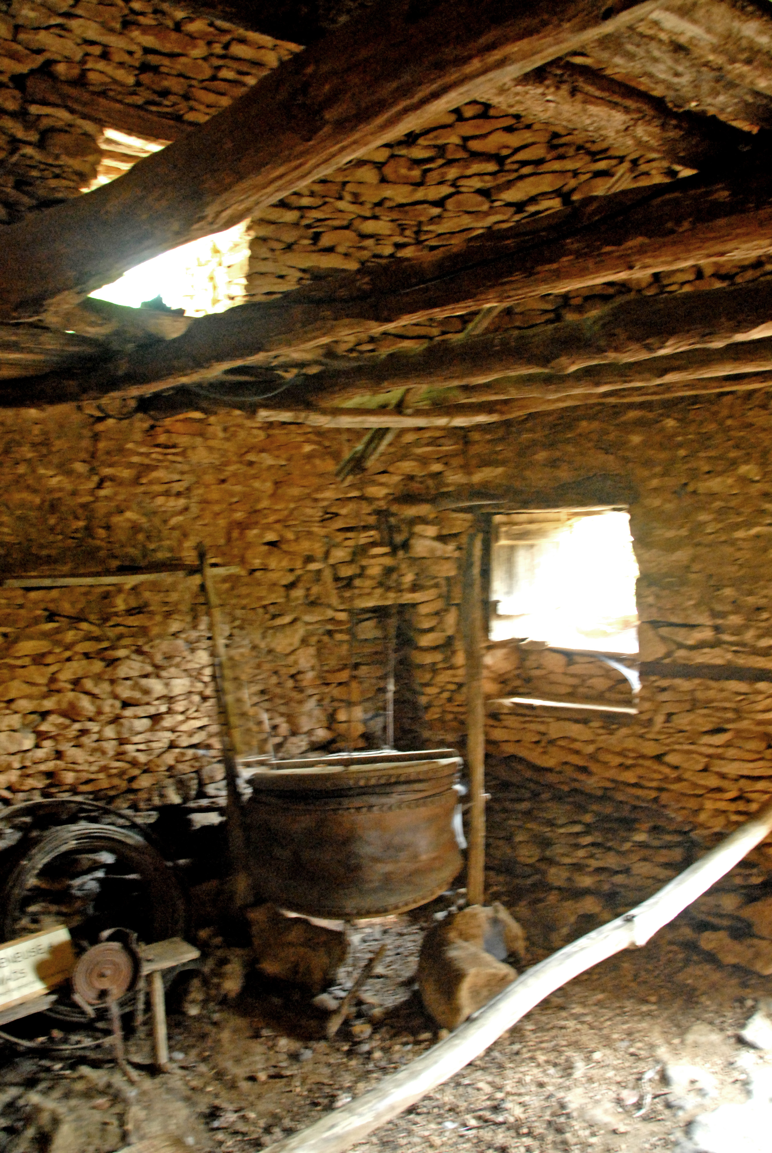 A cooking place in a dry stone cottage at Cabanes du Breuil in France.